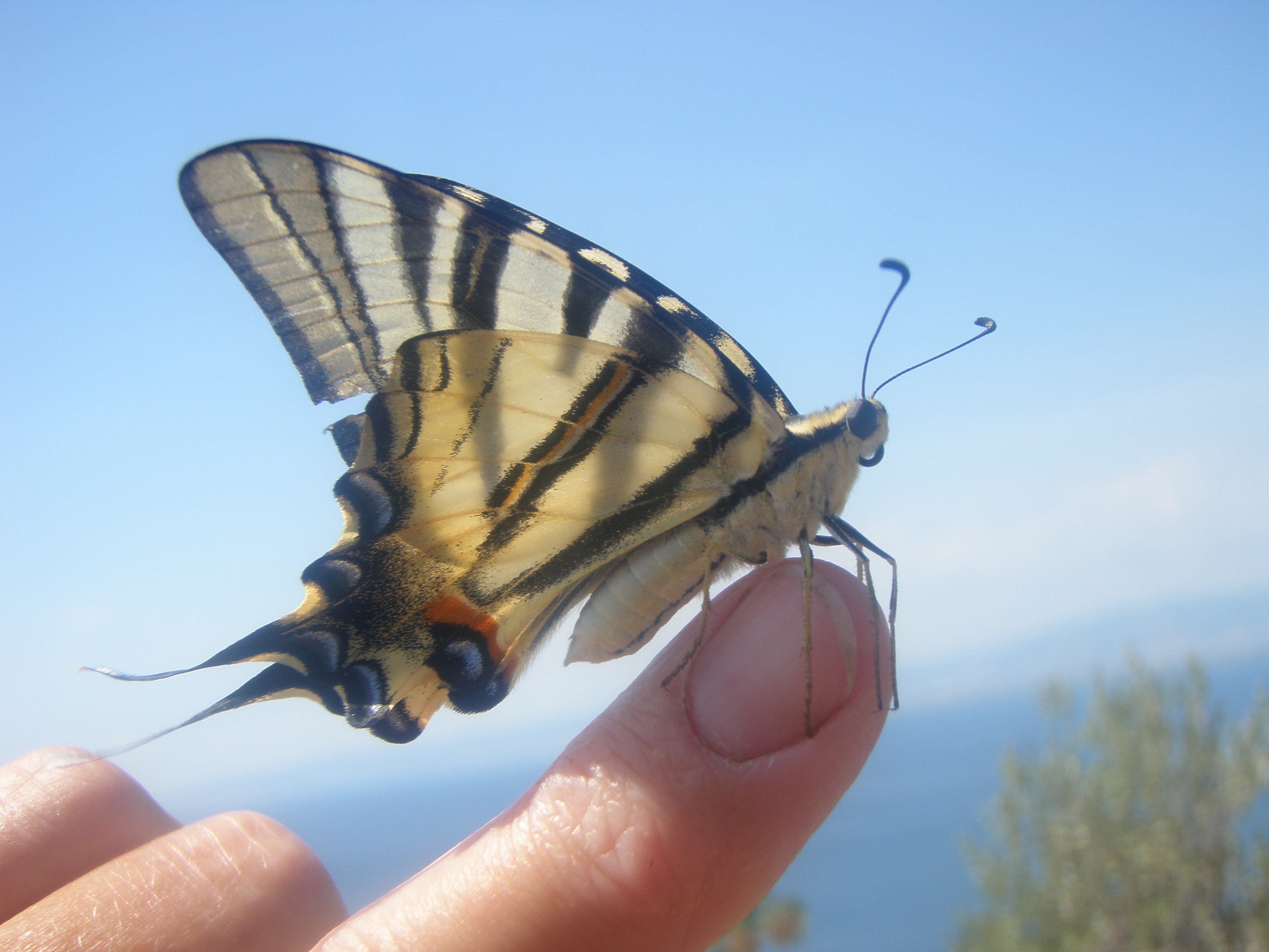 Iphiclides Podalirius